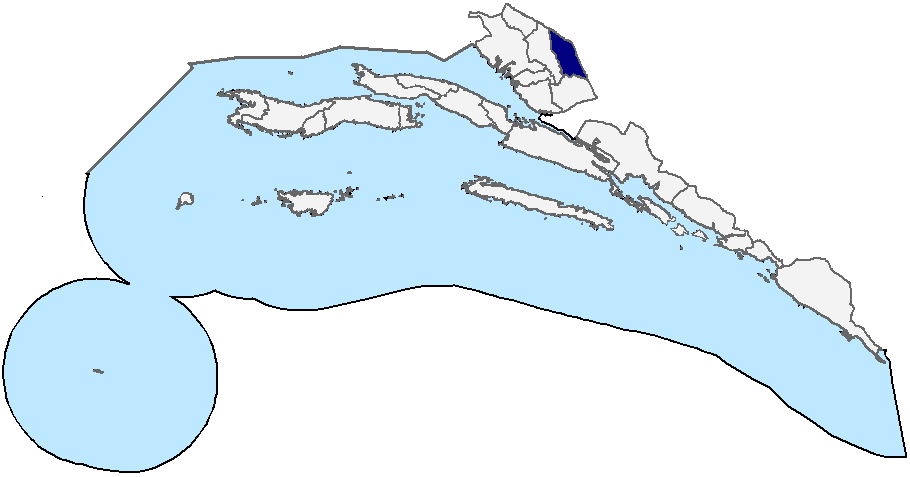 Self-made map of Metković municipality within Dubrovnik-Neretva County.